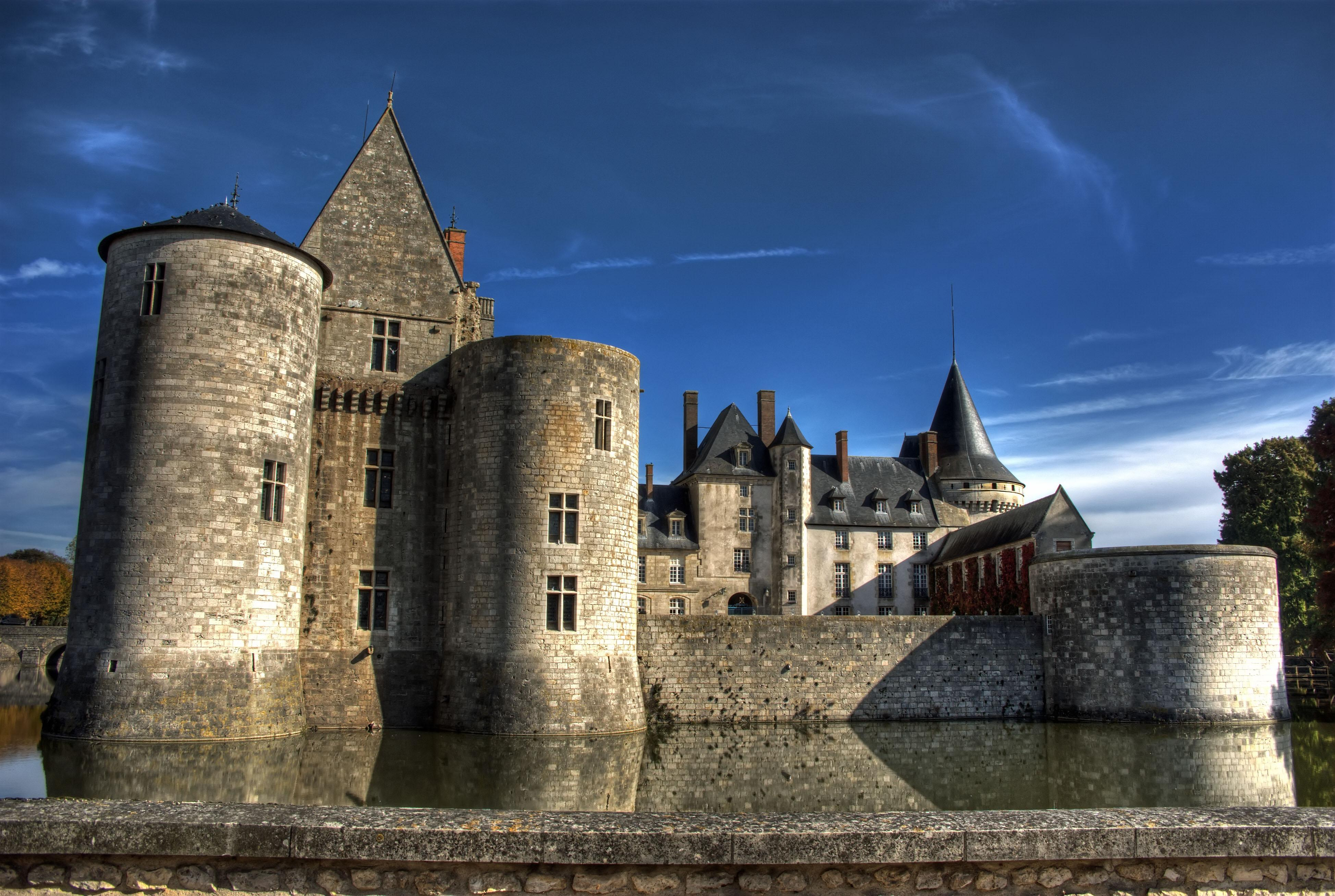 Castle of Sully-sur-Loire